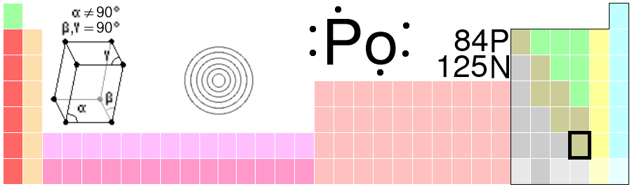 Image by Daniel Mayer or GreatPatton and released under terms of the GNU FDL